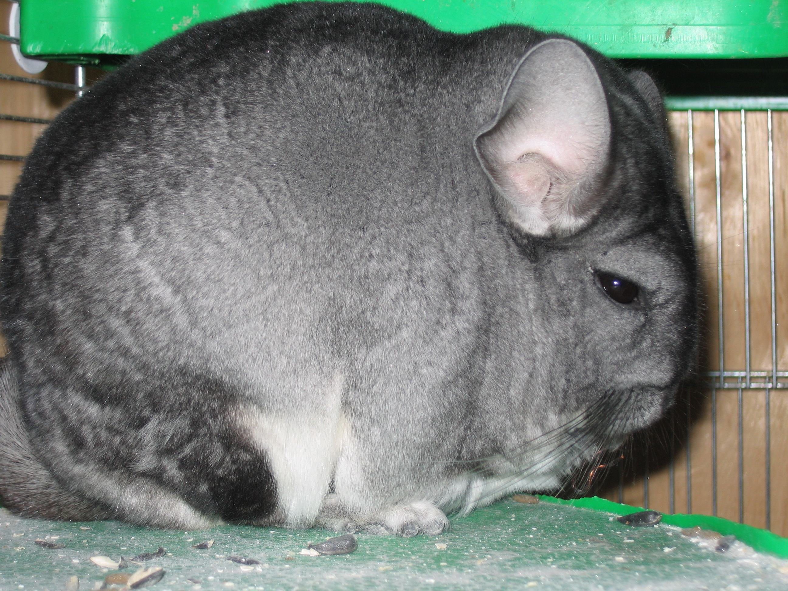 Pet Chinchilla